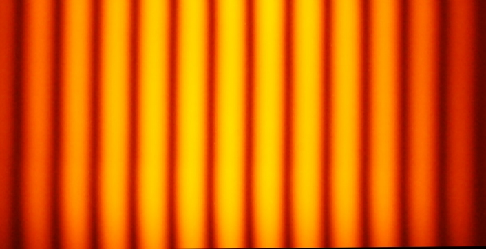 Modified version of File:SodiumD two double slits.jpg created by user:Pieter Kuiper. I have selected the cantral portion of one fringe pattern